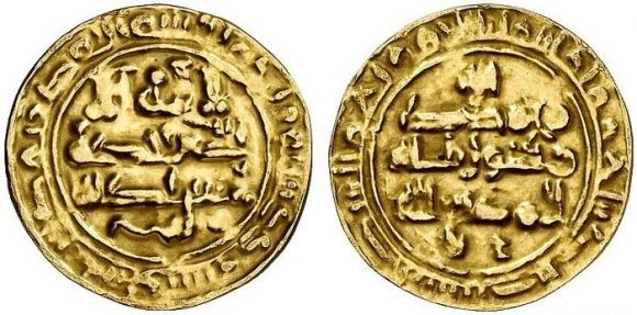 dinar Al-Muti(334-363h)